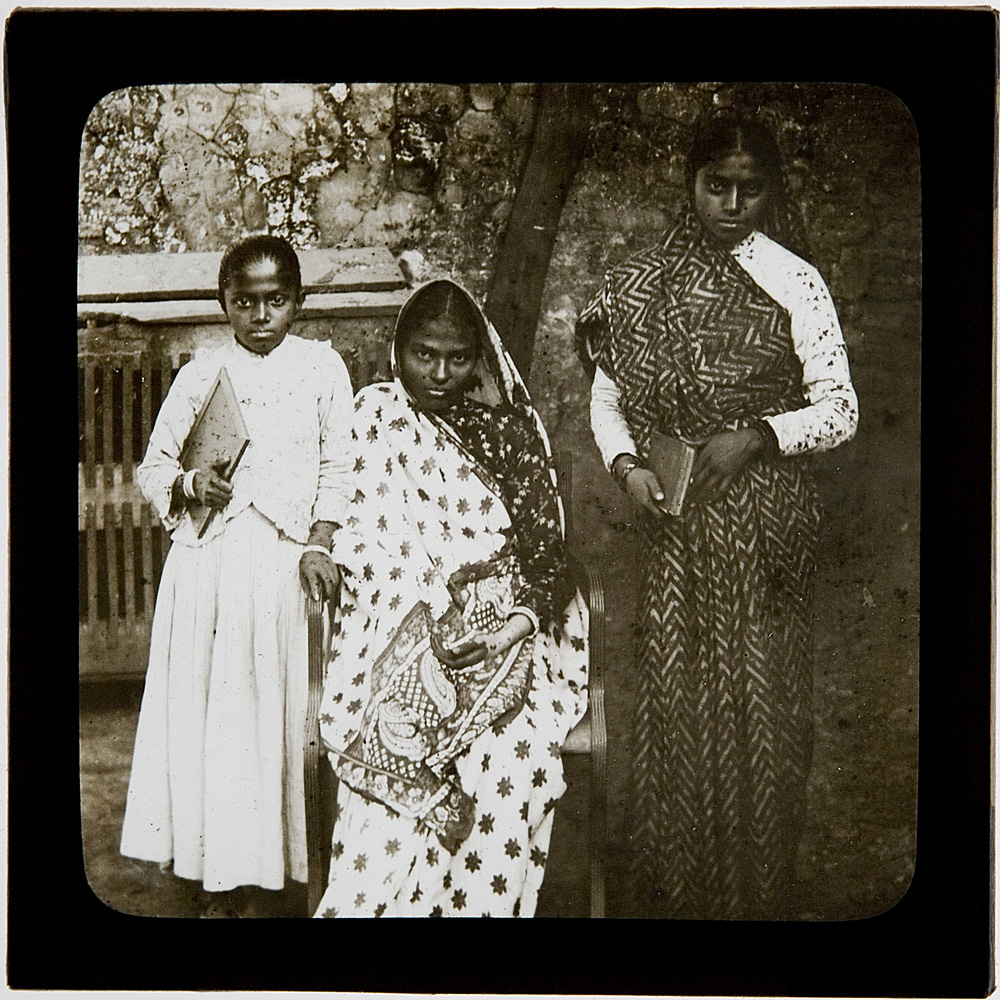 Hand captioned "Christian Girls" This is one of a selection of lantern slides dating I estimate to c. 1900. The set appears to be a personal collection, with items connected to Northern Ireland, missionary work, the YMCA, and India